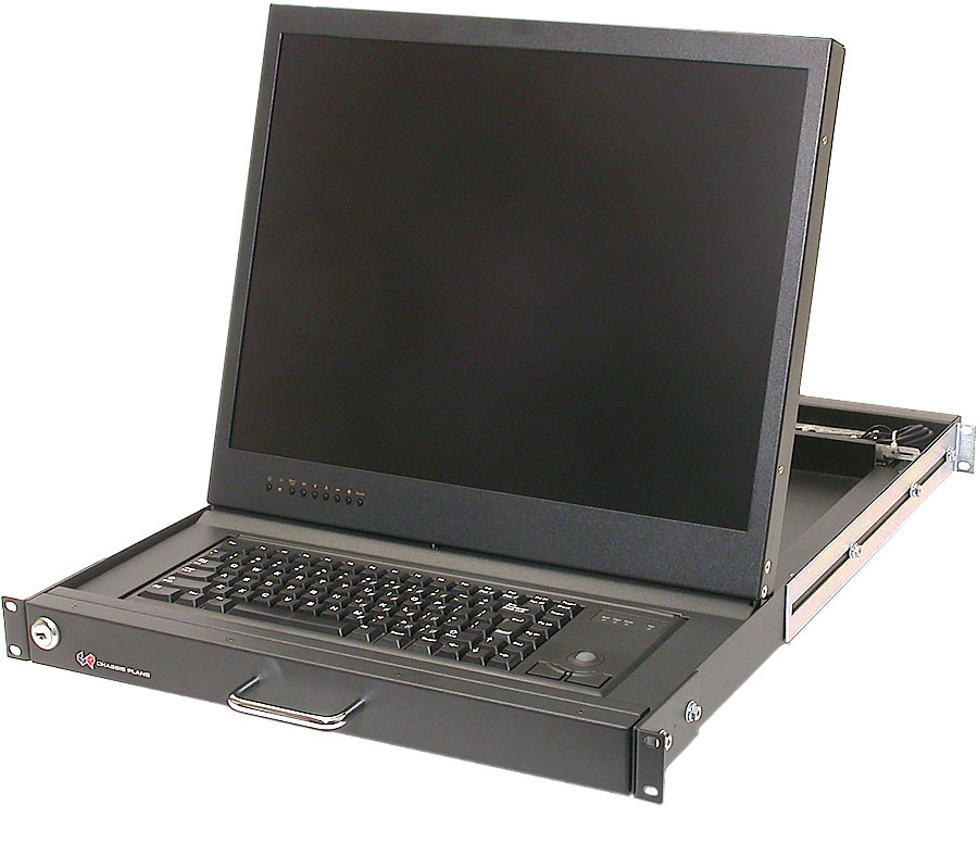 CPR-27201 Layflat Rack Mount KVM (Keyboard Video Monitor) w/ 20.1" LCD